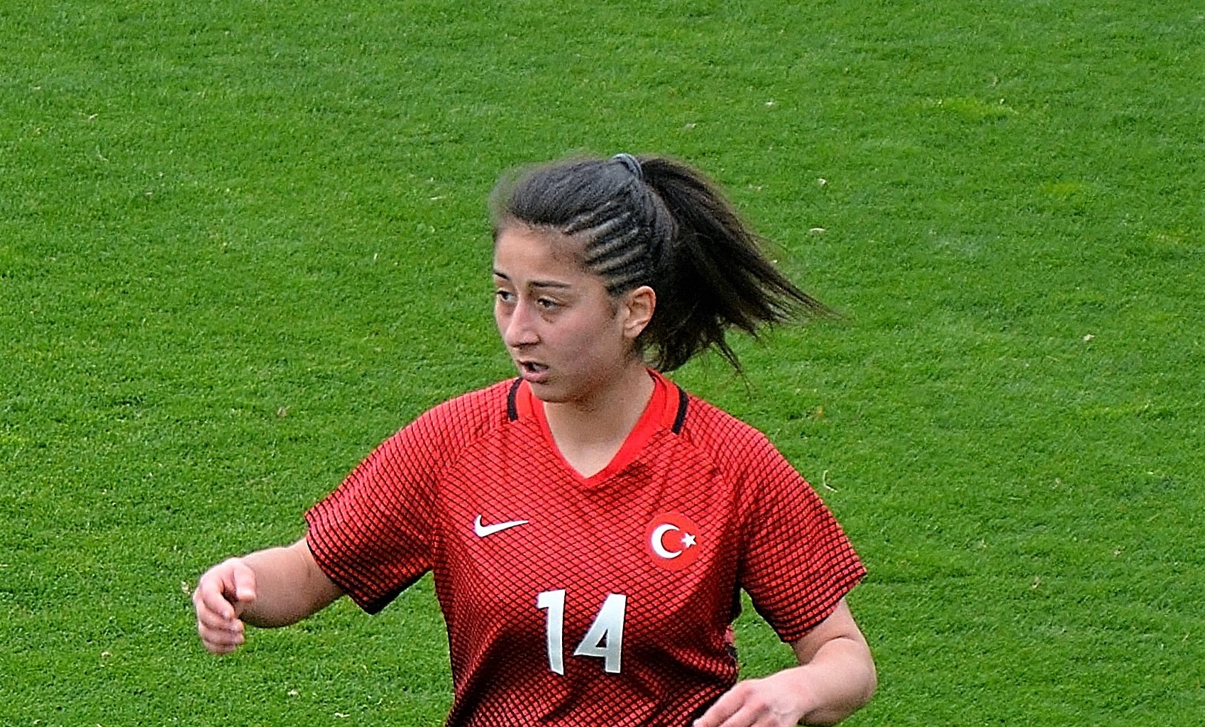 Hair fashion of Selen Altunkulak, playing for Turkey women's national football team in the friendly home match against Estonia at TFF Riva Facility on 7 April 2018.